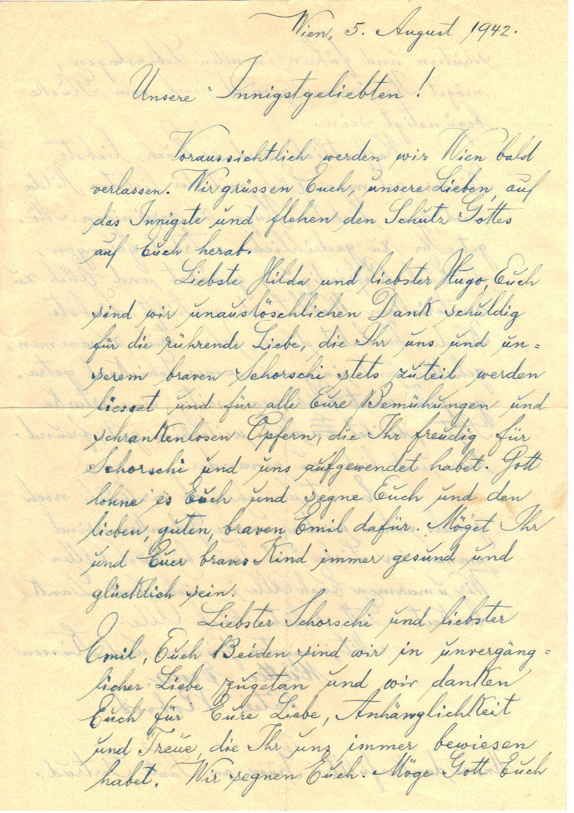 Robert and Ernestine Auer were Jewish inhabitants of Vienna. They were murdered in Treblinke death camp in September 1942. These are the last letters they wrote to their son, nephew and siblings.